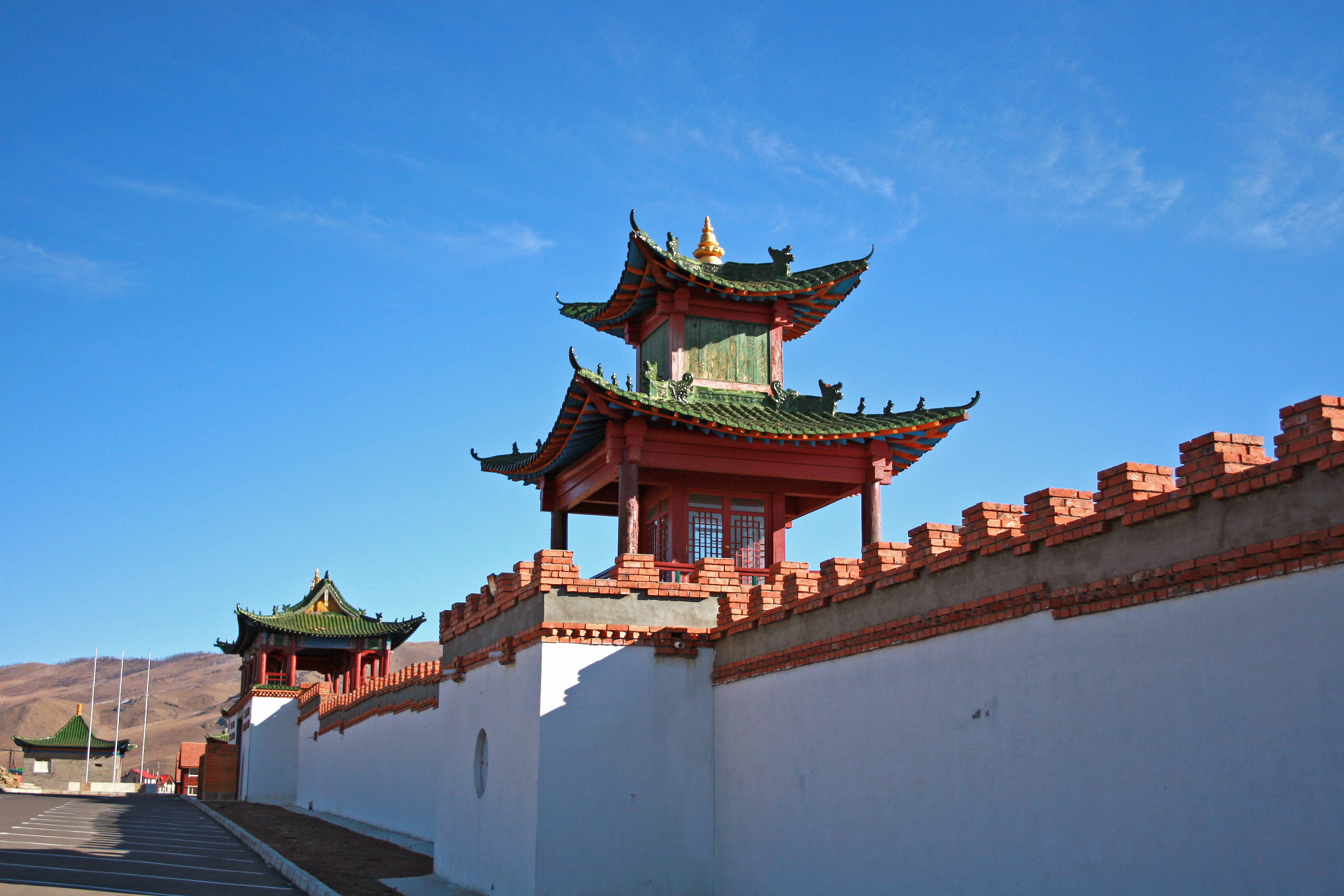 Walls and pavilion of the Hotel Mongolia in Ulan Bator